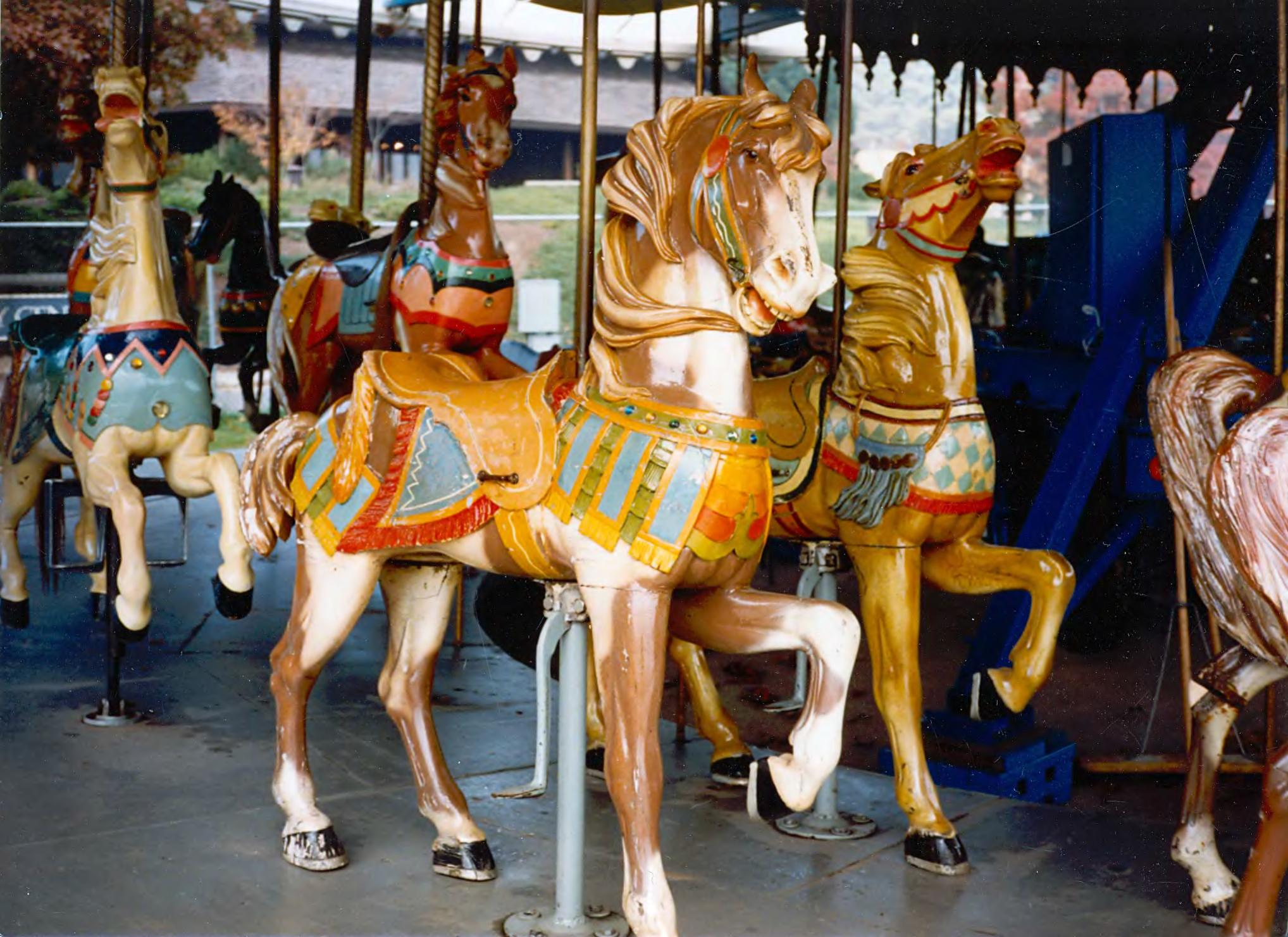 The historic William F. Mangels Four-Row Carousel (built ca. 1914) is listed on the US National Register of Historic Places. This photo shows the carousel at one of its former locations, at the World Forestry Center, Washington Park, Portland, Oregon, United States.